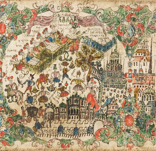 An intricately illustrated early 18th-century manuscript scroll of the Book of Esther.